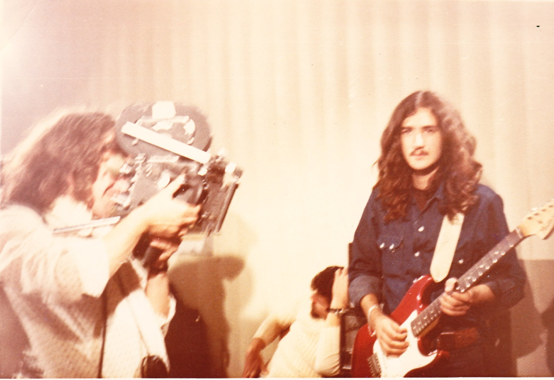 Amnon Solomon and the guitarist Yoram Lubling during making the film by Jacques Katmor “Youngsters in Israel". It was filmed by Amnon Solomon.